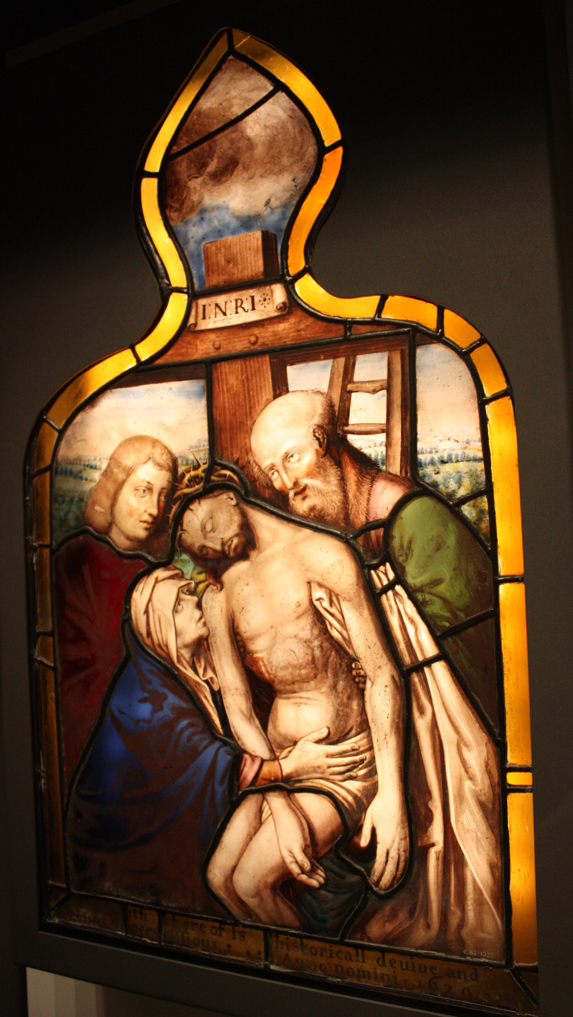 Stained-glass panel Dated 1629 The Deposition (Christ taken from the cross) had been a popular pre-Reformation image. It appears here in intense colour, the result of new techniques introduced by the German brothers Abraham and Bernard van Linge. Stained glass was popular before the Civil War among the Anglican supporters of Archbishop Laud (1573-1645) who attempted to revive traditional religious practices. The text underneath, however, emphasised that the image told a Biblical story and was not itself intended to be worshipped. Coloured and clear glass painted with coloured enamels. Painted, probably in Herefordshire, by Abraham van Linge (originally from Emden, Germany, active in England 1625-1641) from a composition by Rogier van der Weyden (born in Tournai, Belgium, about 1399, died in Brussels, 1464). From Hampton Court, Herefordshire Given by Wilfred Drake Museum no. C.62-1927 Wikipedia Loves Art at the Victoria and Albert Museum This photo of item # C.62-1927 at the Victoria and Albert Museum was contributed under the team name "va_va_val" as part of the Wikipedia Loves Art project in February 2009. Victoria and Albert Museum The original photograph on Flickr was taken by Val_McG—please add a comment to the original Flickr page whenever a use has been made on Wikipedia or another project. Project galleries on Flickr: this institution, this team